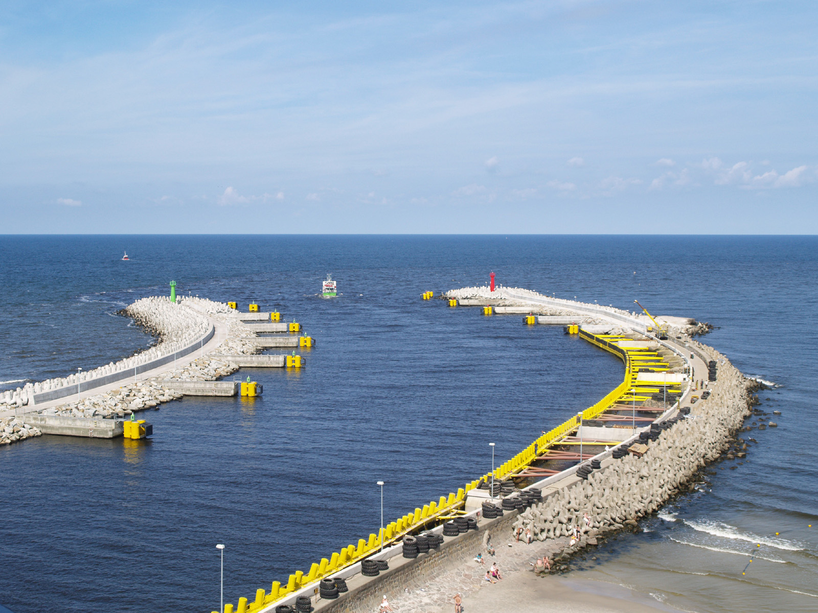 Port of Kołobrzeg entrance, seen from lighthouse.